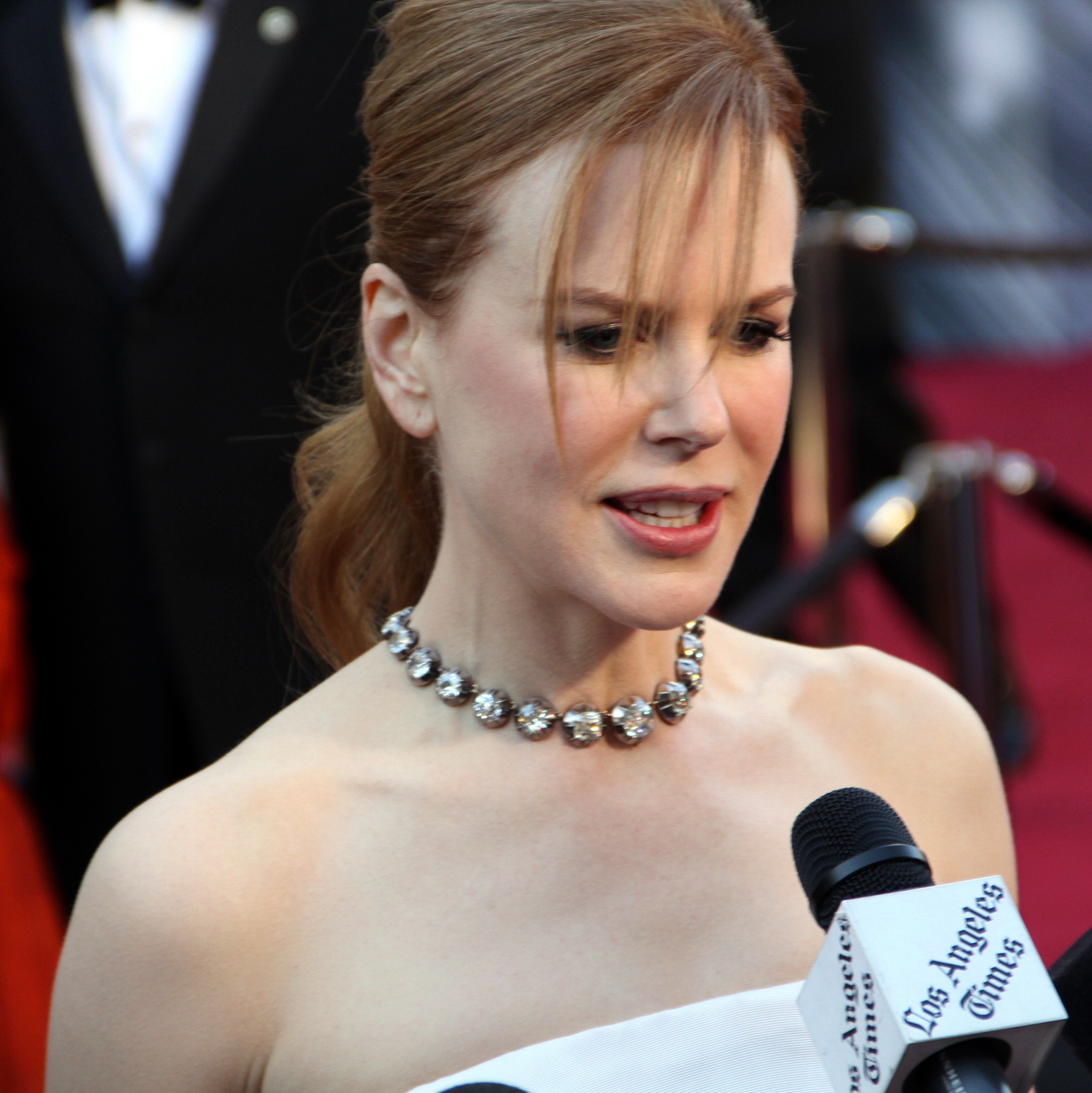 Nicole Kidman interviewed by the Los Angeles Times at the 83rd Academy Awards